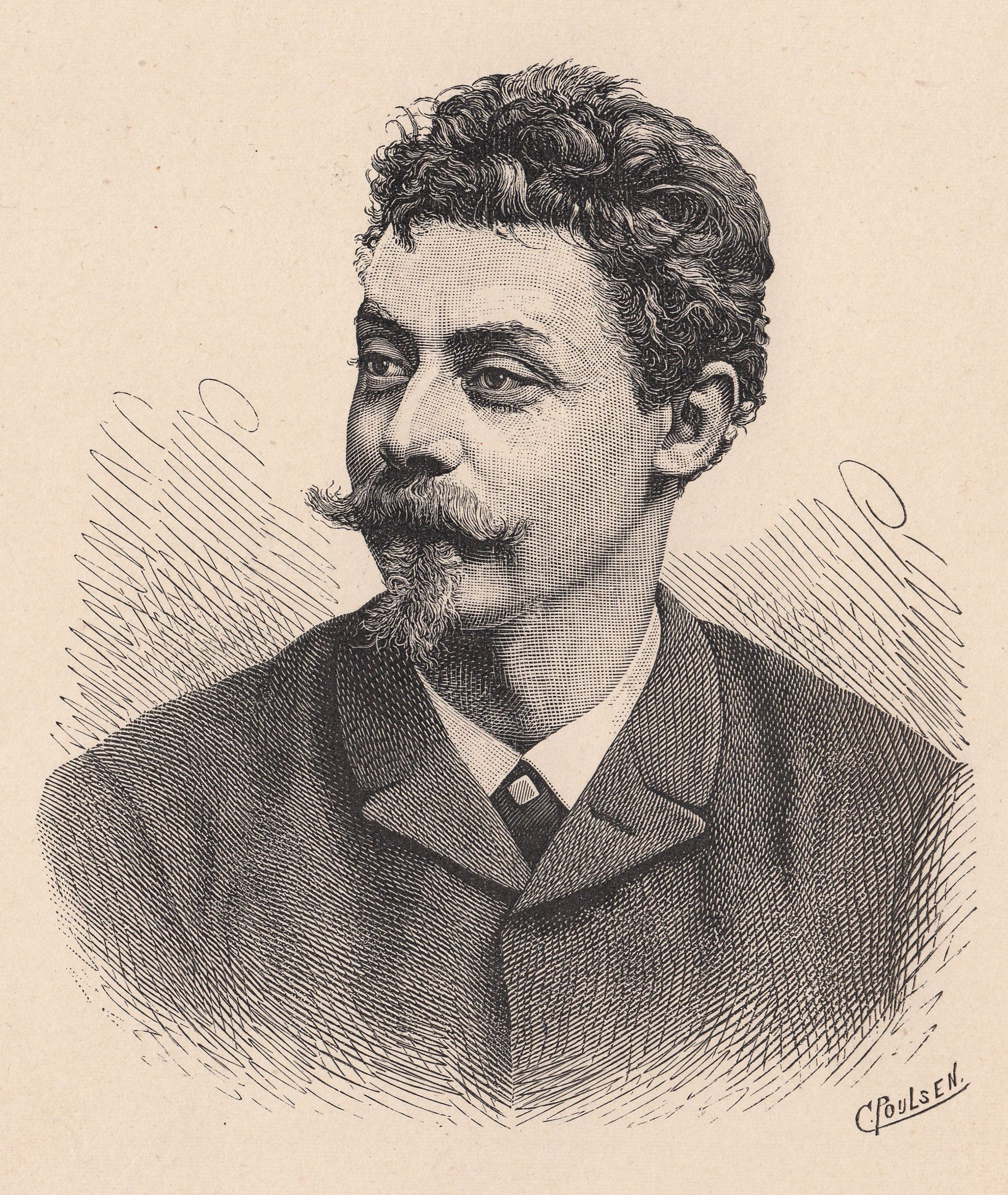 Danish poet Otto C. Fønss